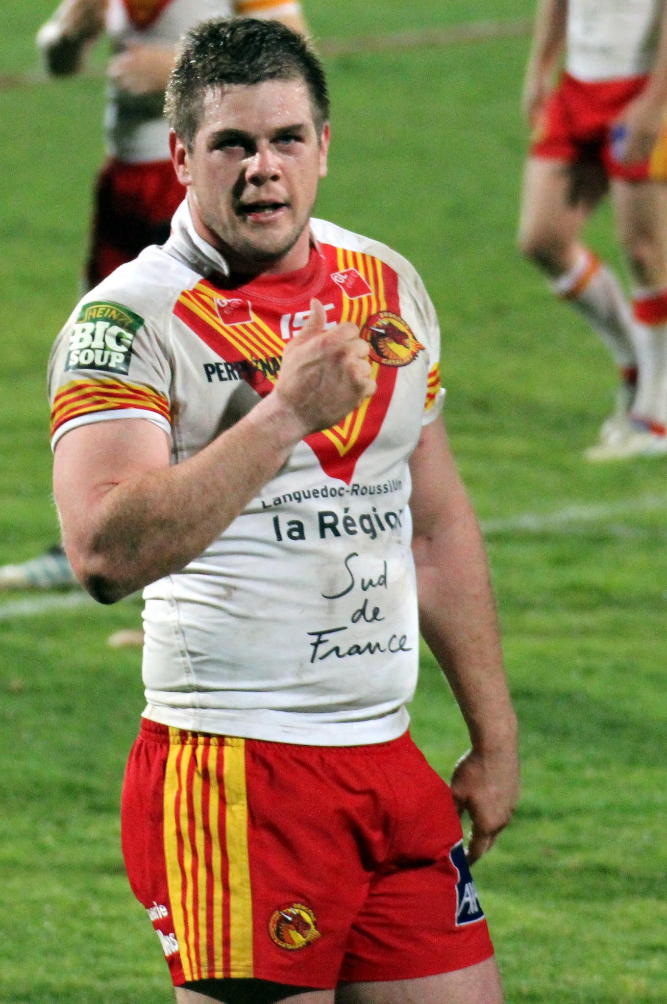 French rugby league player, Remi Casty.